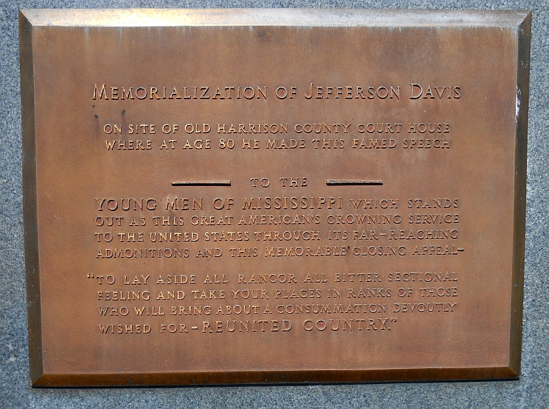 Plaque commemorating the 1888 speech by Jefferson Davis at the site of the old Harrison County Courthouse in Mississippi City, Mississippi, USA